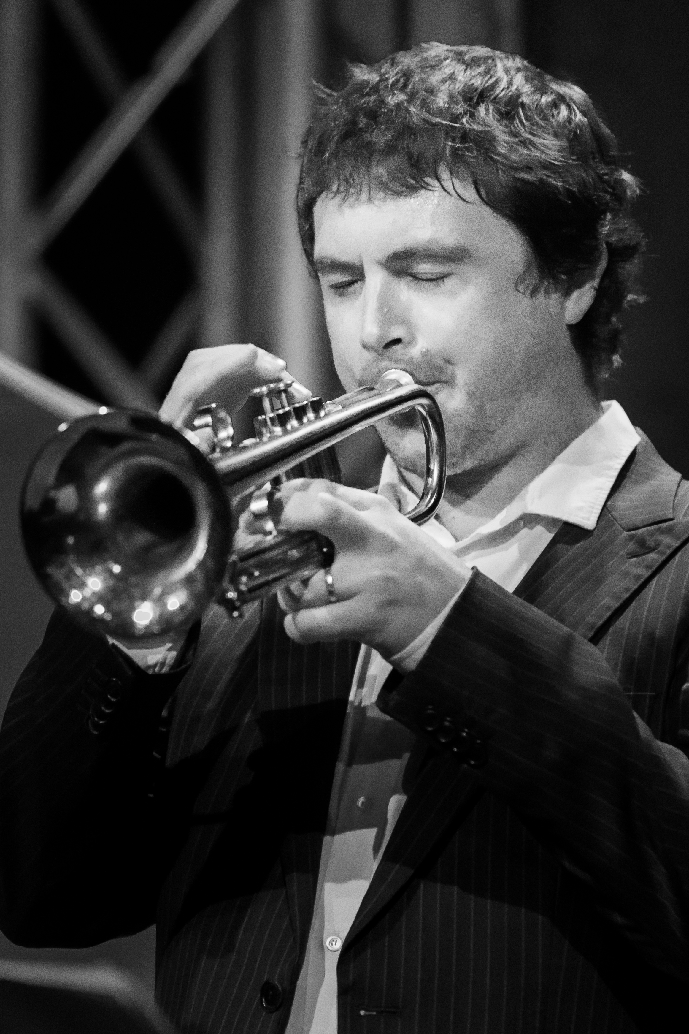 Jazz trumpeter Ryan Carniaux on stage during concert Trumpet Summit feat. Klaus Osterloh at Pantheon Casino, Bonn.